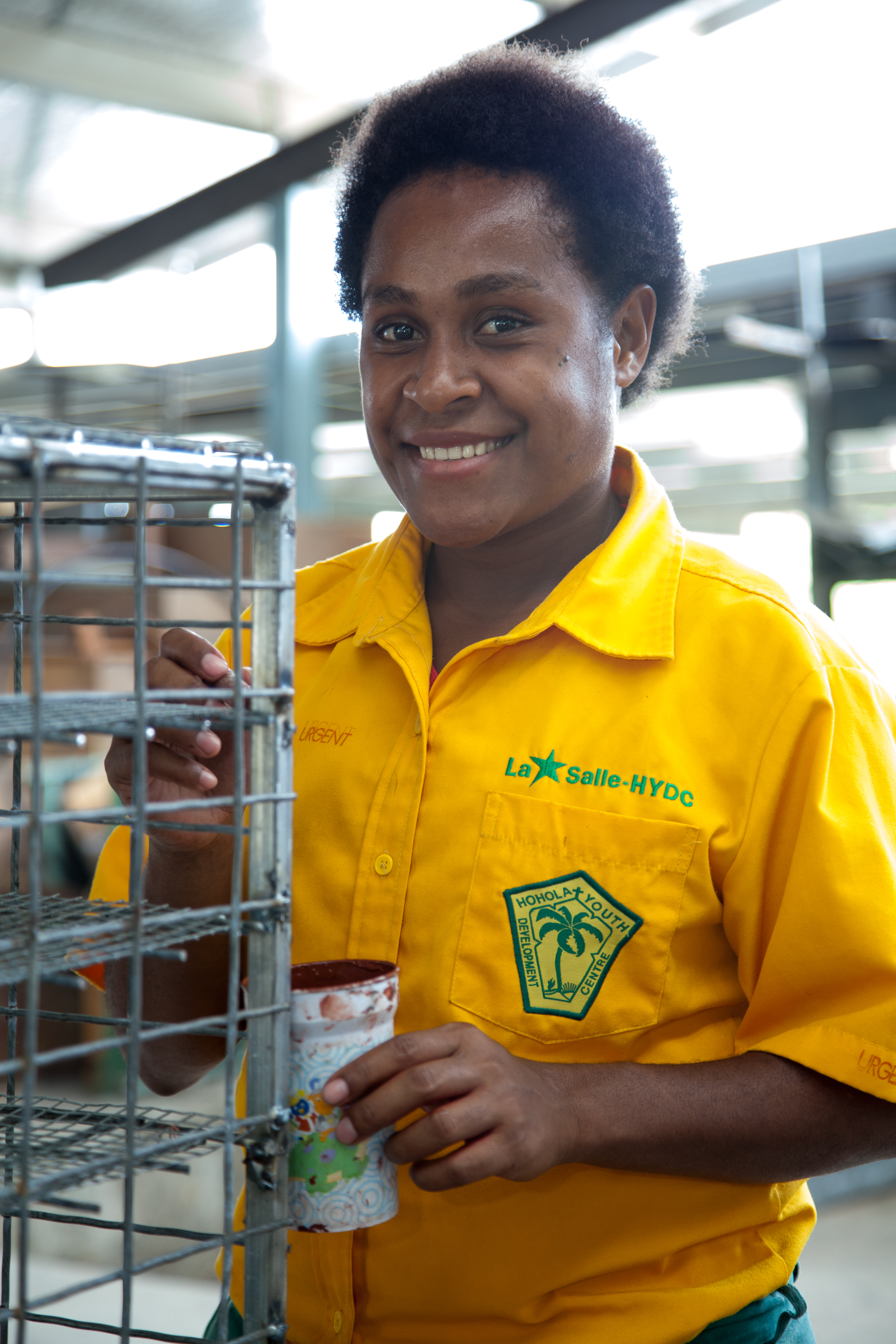 Students at The Hohola Youth Development Centre where students learn vocational training skills. Photo taken by Ness Kerton for AusAID. (13/2529)